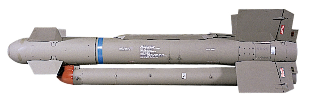 AGM-130. Primary function: Precision, air-to-surface, all-weather, television/infrared and/or GPS-guided, powered bomb. Dimensions: Length 12 ft. 10.5 in., diameter 18 in., wingspan 4 ft. 11 in. Speed/Range: Classified.